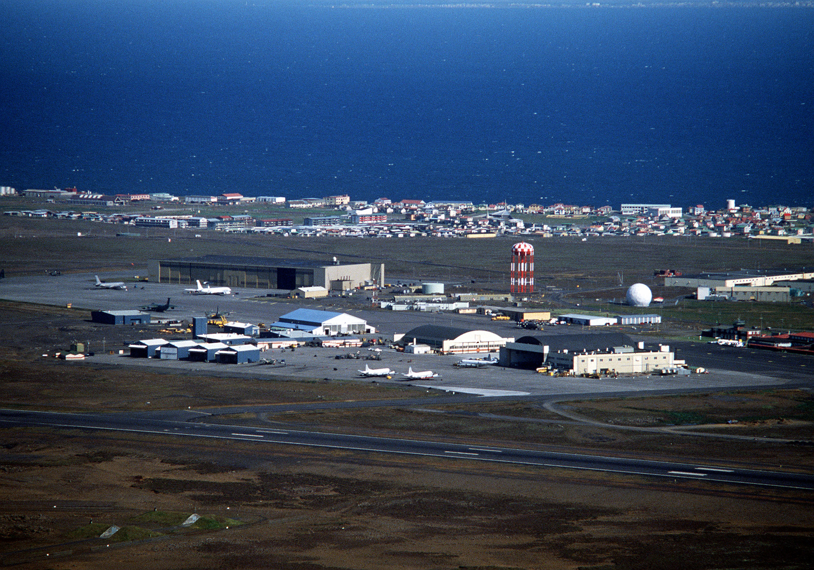 A view of the U.S. Naval Air Station Keflavik, 19 August 1982. In the foreground are the ramp areas and facilities of the U.S. Air Force 57th Fighter Interceptor Squadron, with other facilities in the background. The air terminal is visible on the right.